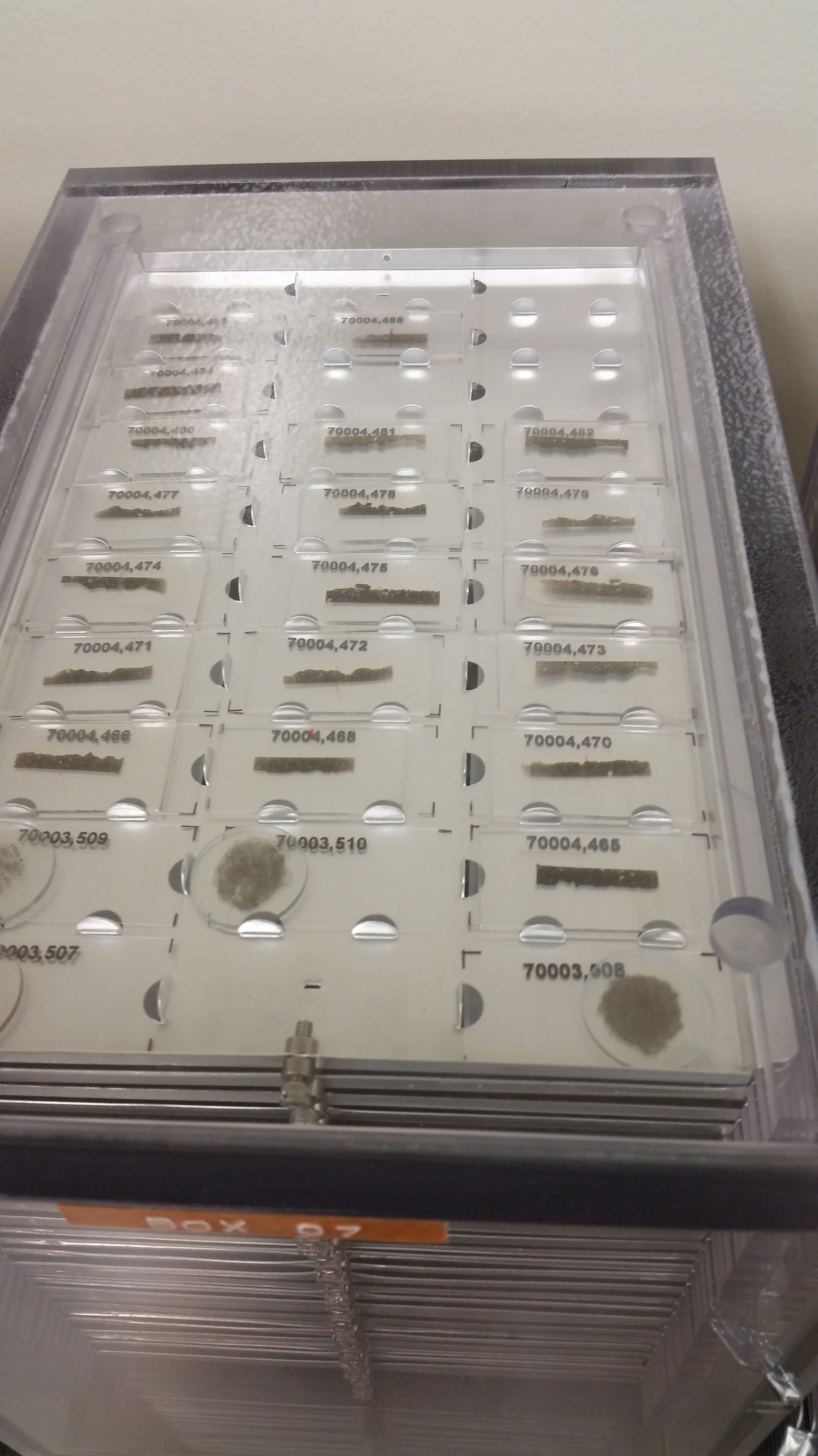 Lunar Sample Lab 4